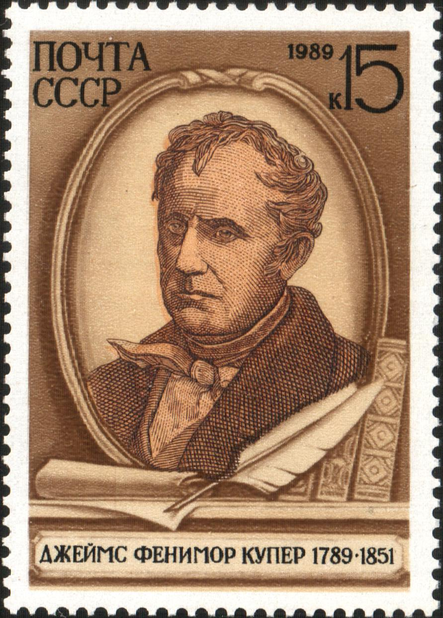 A USSR stamp